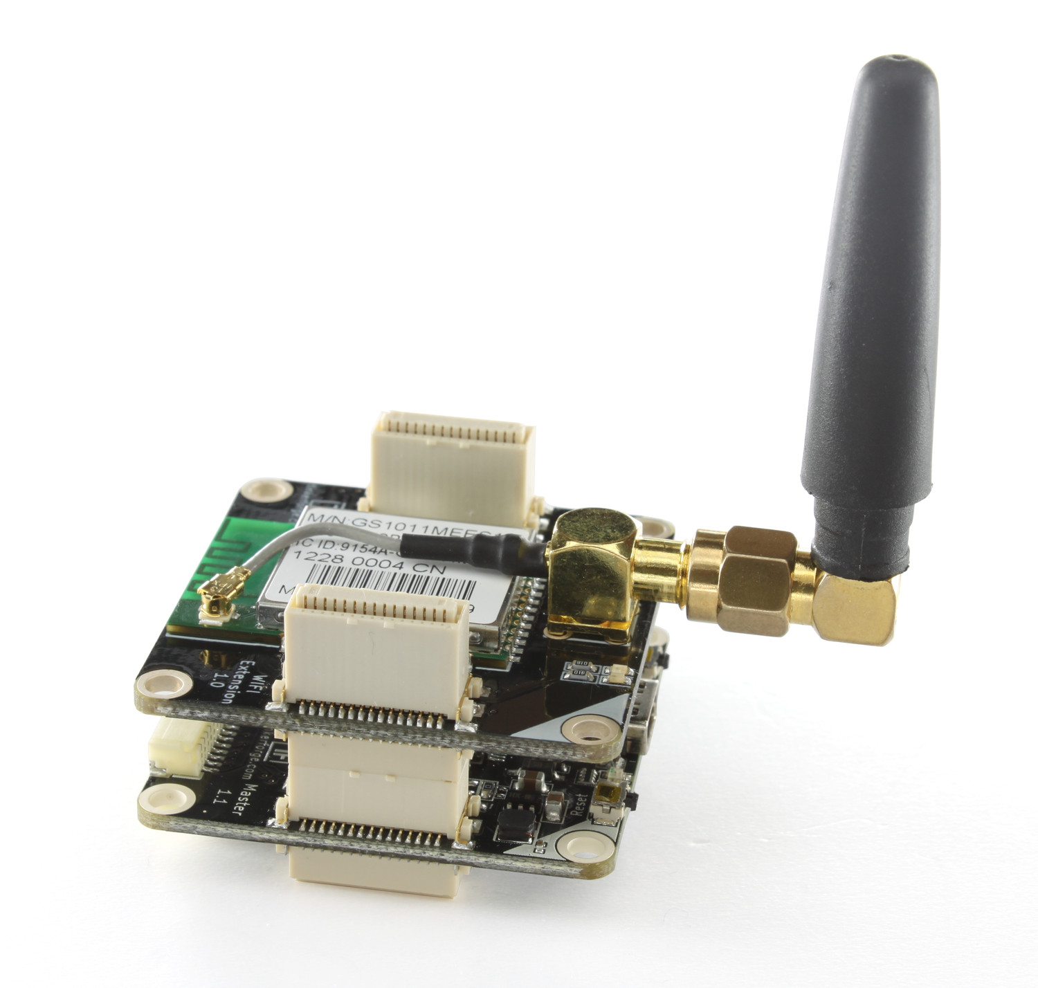 Master Brick with WIFI Extension stacked together.